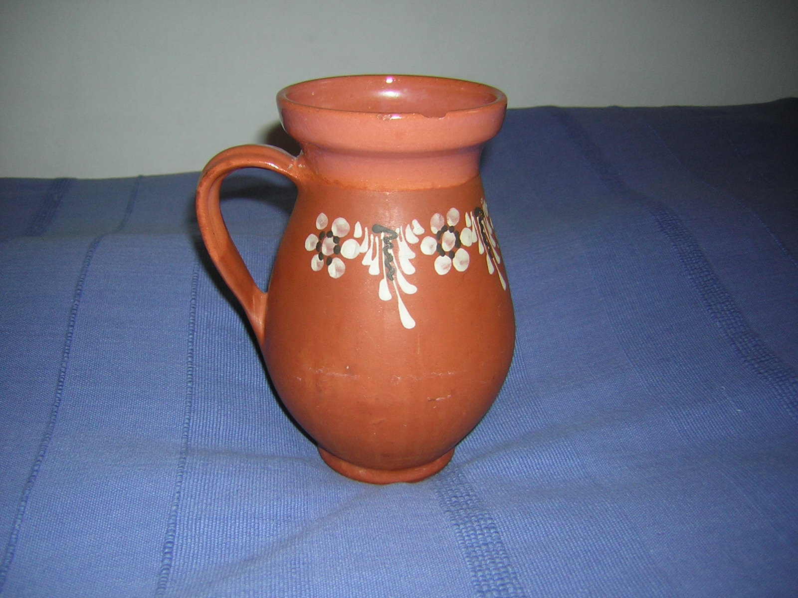 Jug of milk traditional hungarian pottery work from Mezőtúr